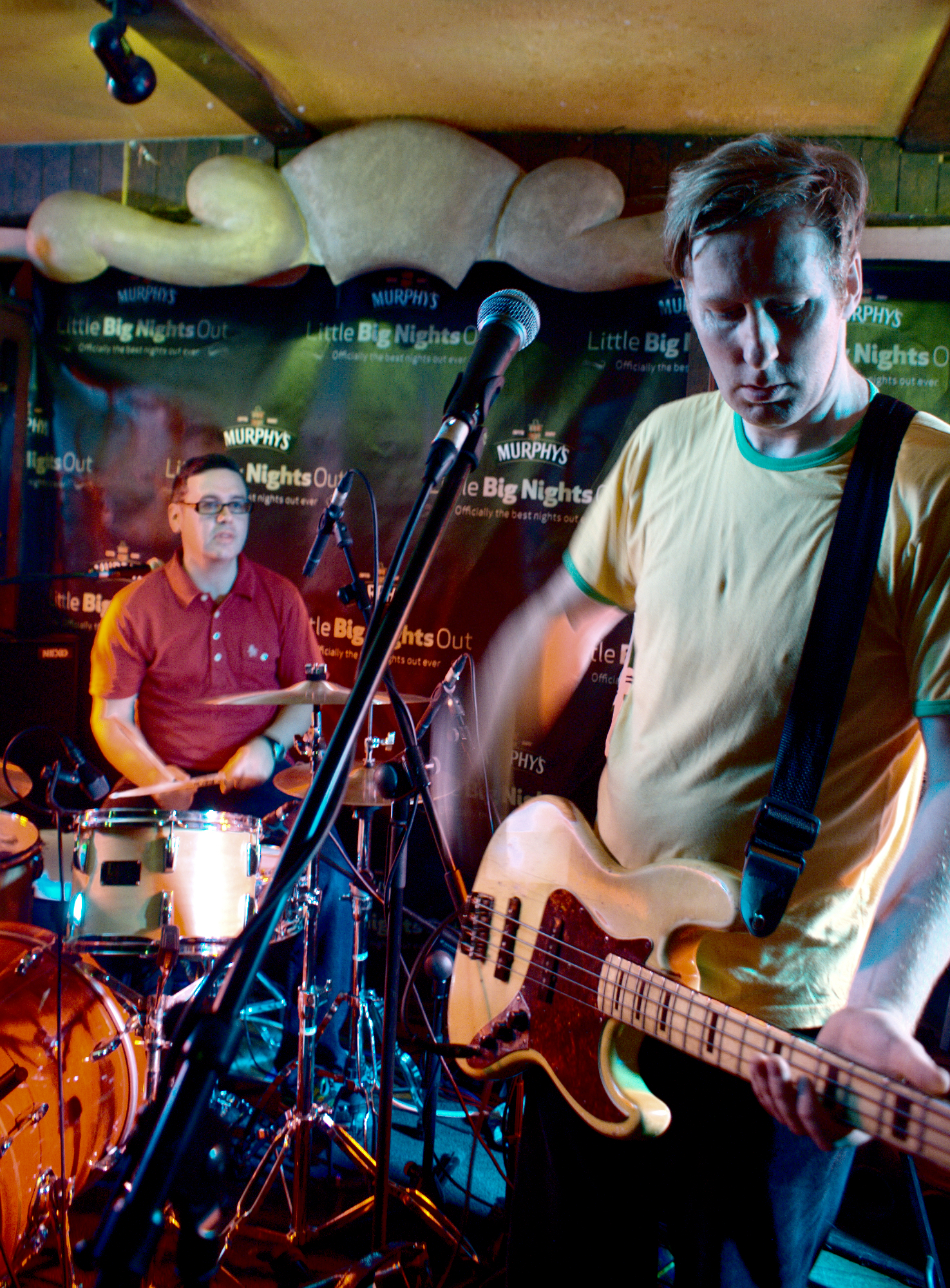 Ashley Keating and Paul Linehan of The Frank and Walters perform in An Bróg, in Cork, Ireland.